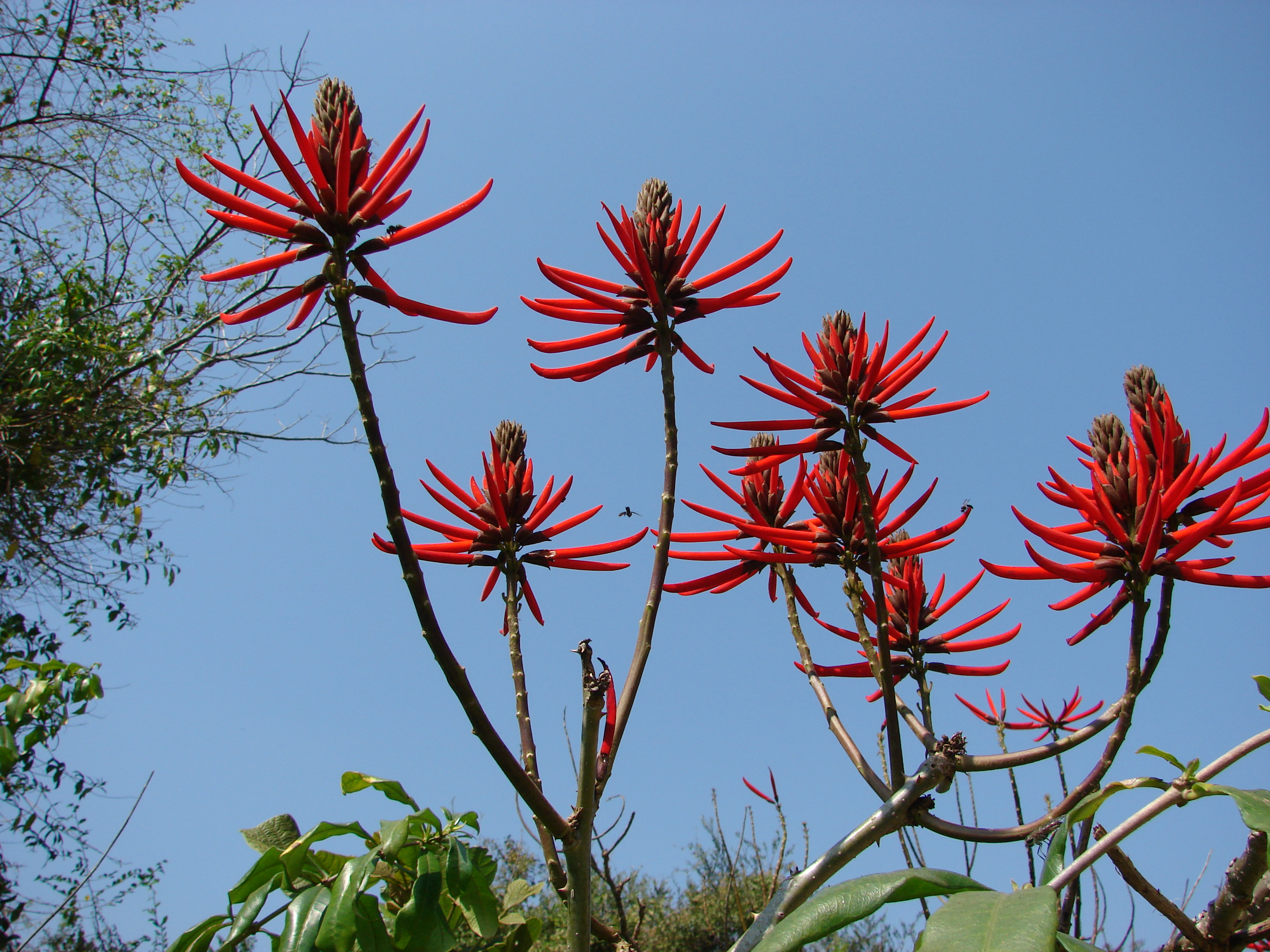 Erythrina speciosa's flowers.(Brazil). Note: the green leaves below are from an Allamanda sp.